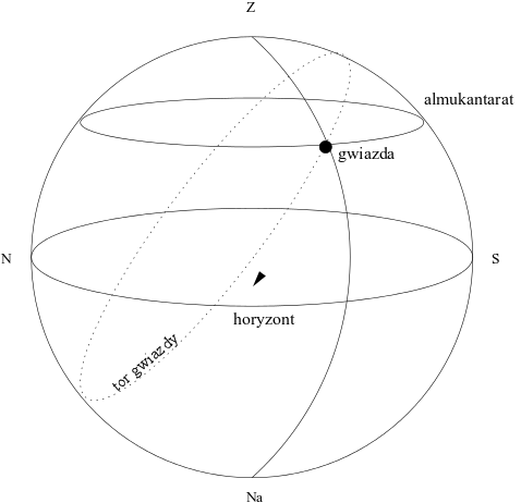 Almucantar transit